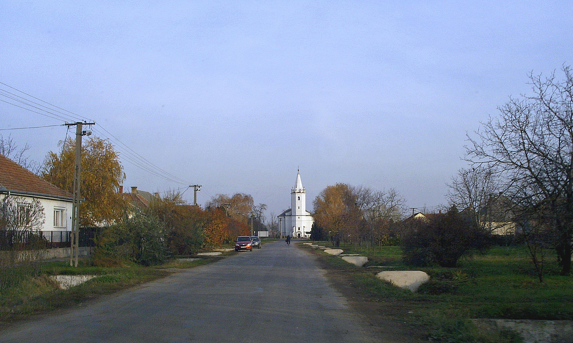 Tunyogmatolcs is a village in Szabolcs-Szatmár-Bereg County, Hungary.